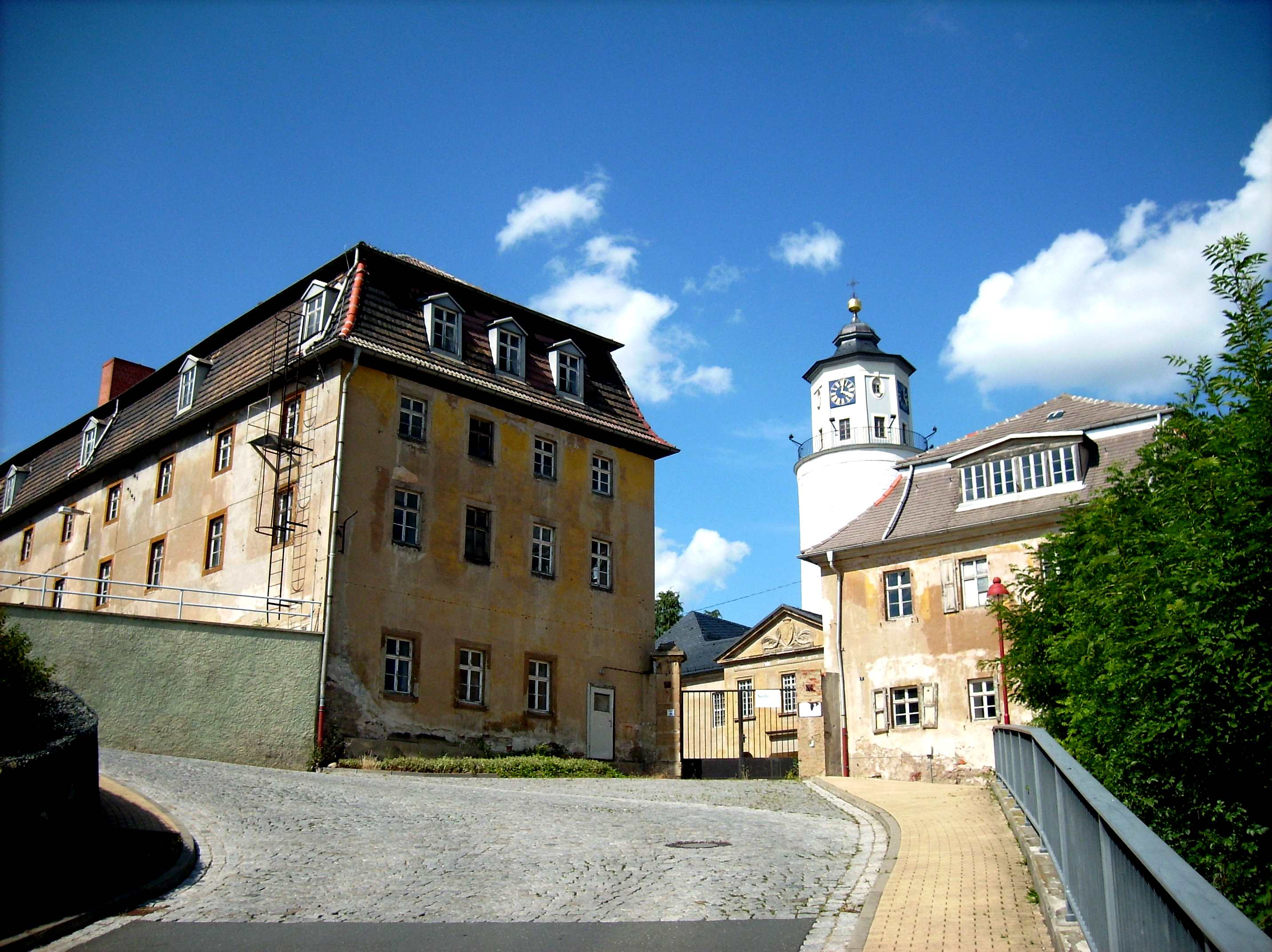 Crossen Castle (district of Saale-Holzland-Kreis, Thuringia)